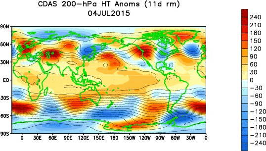 Pressure Anomaly global map CDAS 200-hPa Height Anoms anim (11 d rm) 4 jul 2015. part of: 30-day loop of analyzed 200-hPa heights and anomalies. An eleven-day mean, centered on the date indicated in the title, of 200-hPa heights and anomalies from the NCEP Climate Data Assimilation System (CDAS), is shown for the first 25 days of the animation. 10-, 9-, 8-, 7-, and 6-day running means are shown for the last 5 days, respectively. Contour interval for heights is 120 m, anomalies are indicated by shading. Anomalies are departures from the 1981-2010 daily base period means. (Text after NOAA, 200 hecto Pascals Height Anomalies Animation) Illustrates 2015 European and U.S. Wast coast heat waves.